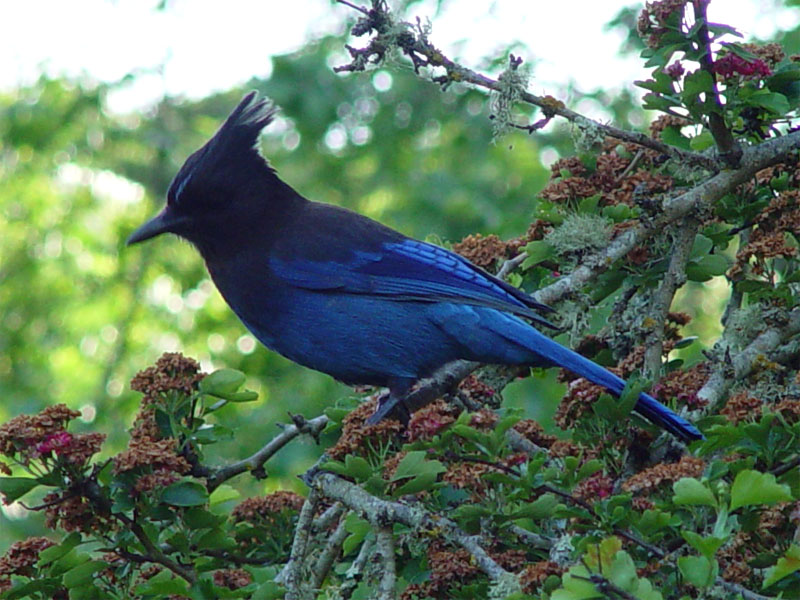 Description Cyanocitta stelleri, Family Corvidae Location Edgewood County Park — northeastern Santa Cruz Mountain foothills, San Mateo County, California. Date April 29, 2004 Photographer Franco Folini